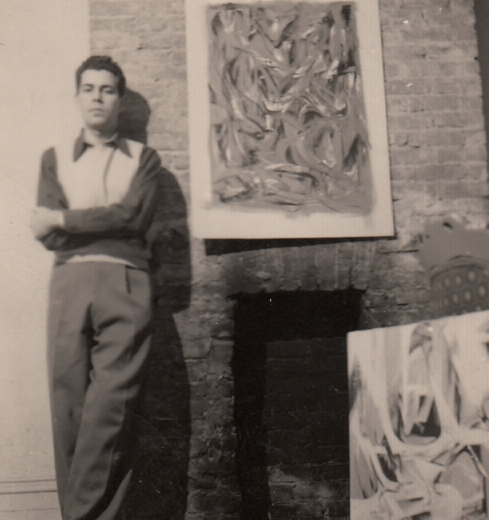 Raymond P. Spillenger in his studio, ca. 1949.